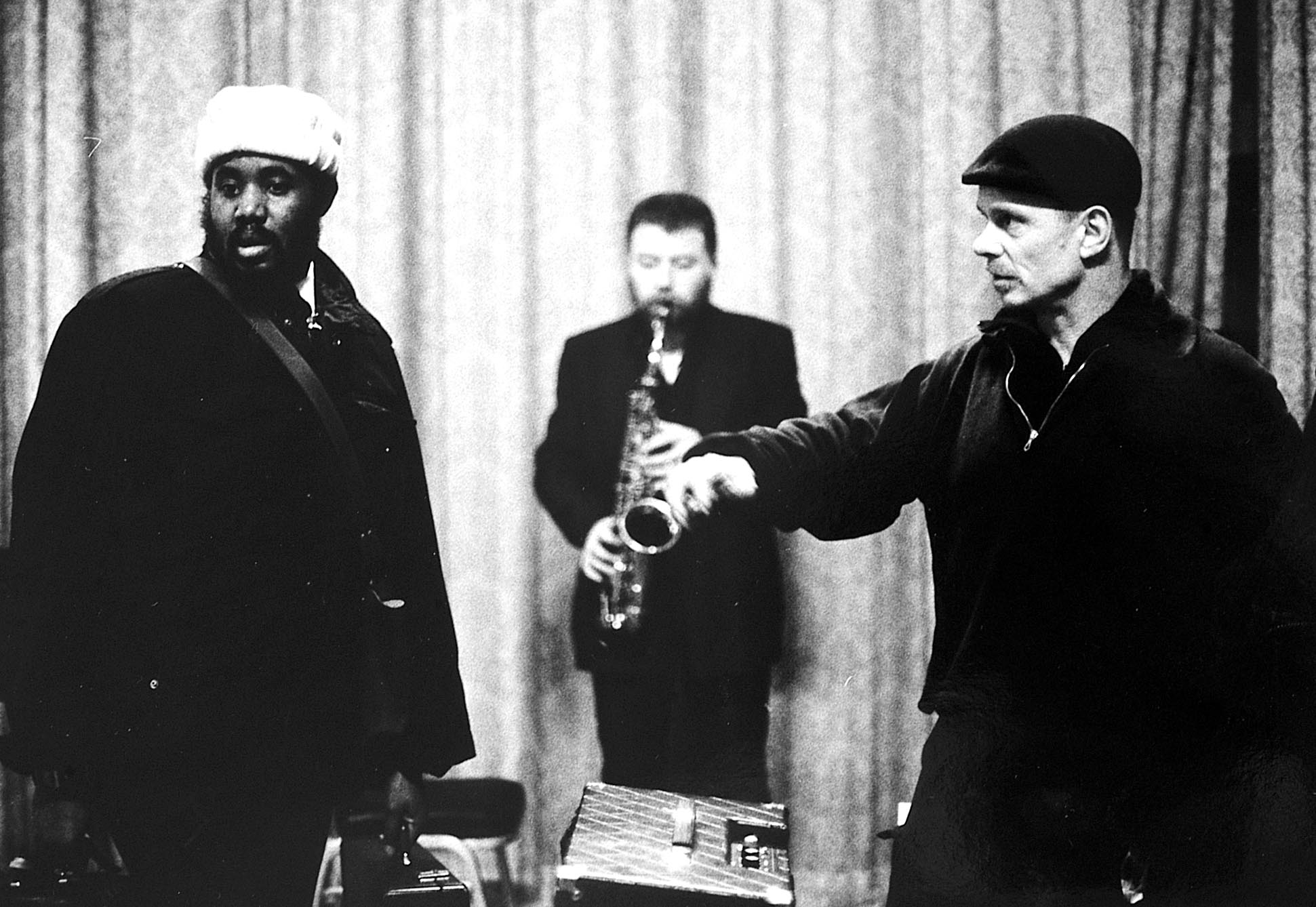 Peter Kowald with Peter Brötzmann and David S.Ware 1985 at Carnegie Hall in New York, USA